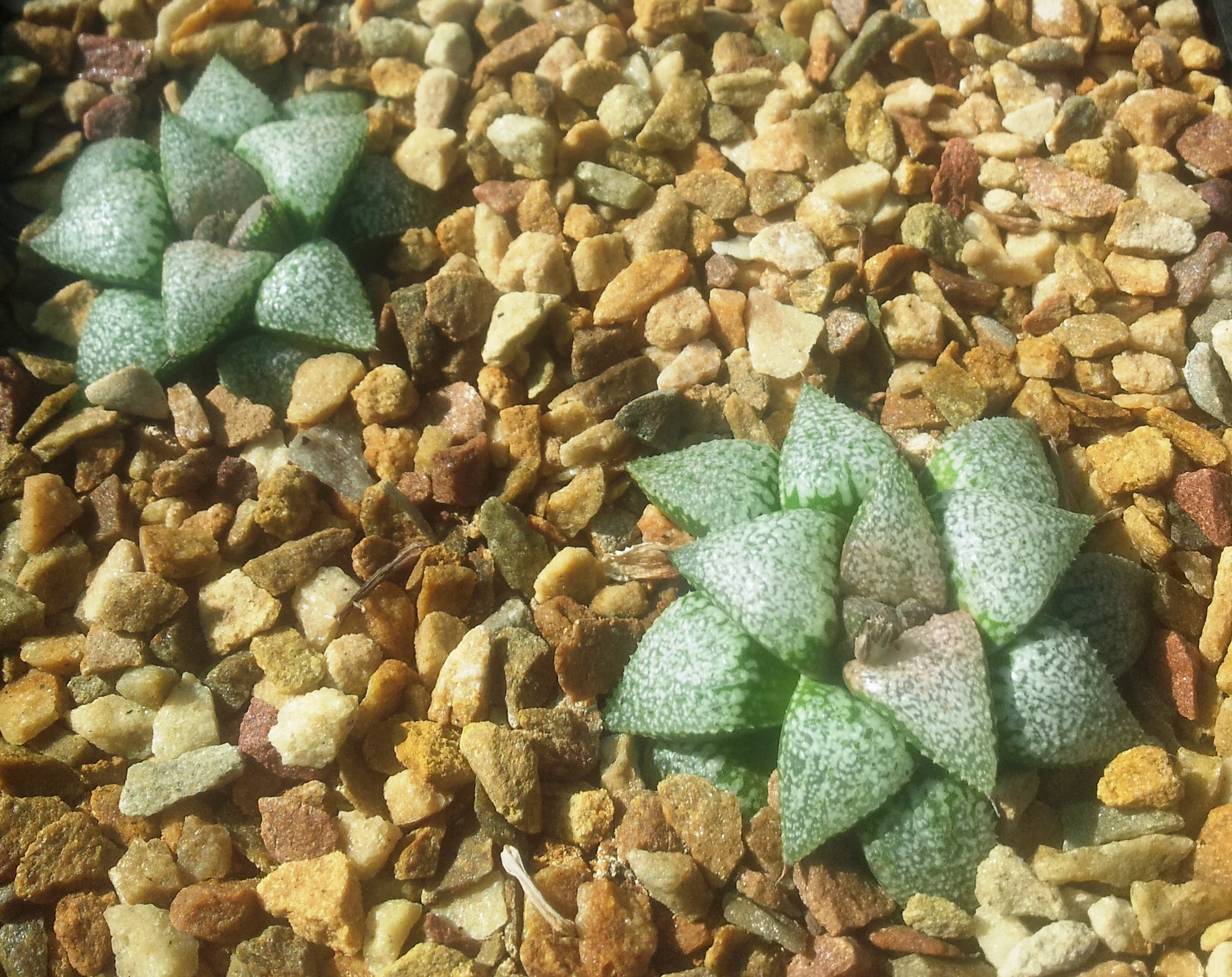 Haworthia emelyae AKA picta